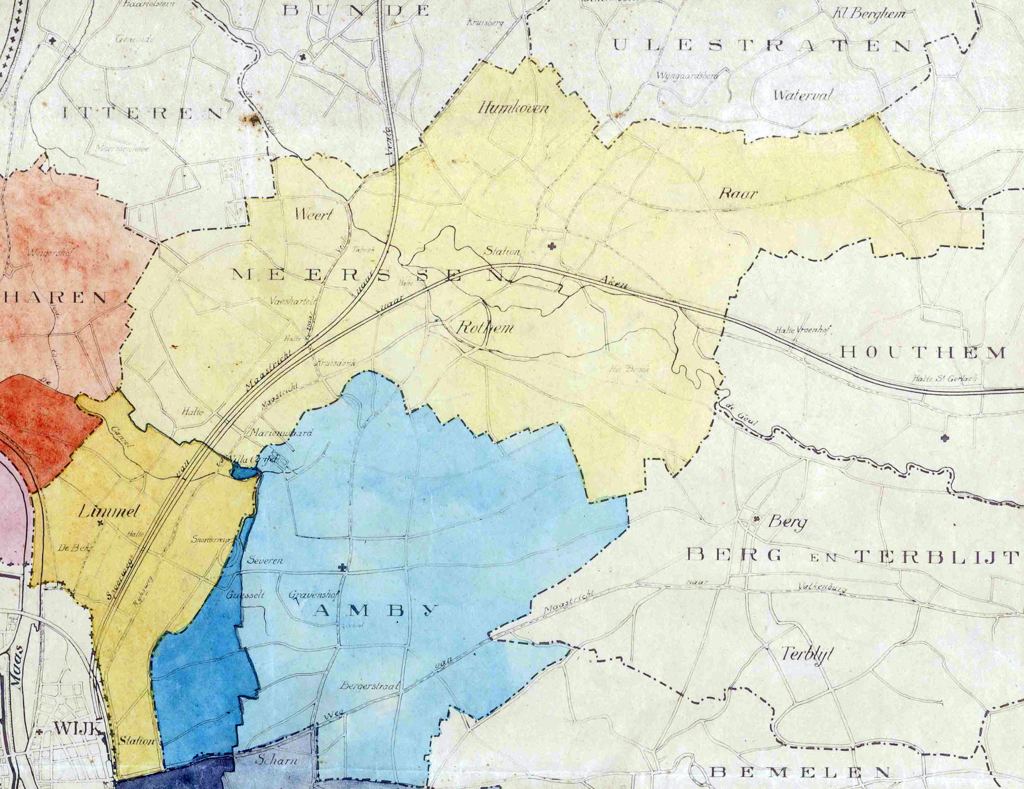 Map of the annexation of parts of Meerssen and other municipalities by the city of Maastricht, Netherlands, in 1920. Collection of RHCL Maastricht, RAL K 171 2.